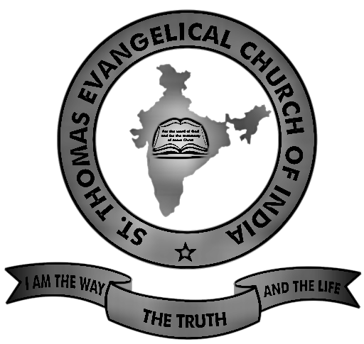 Steci